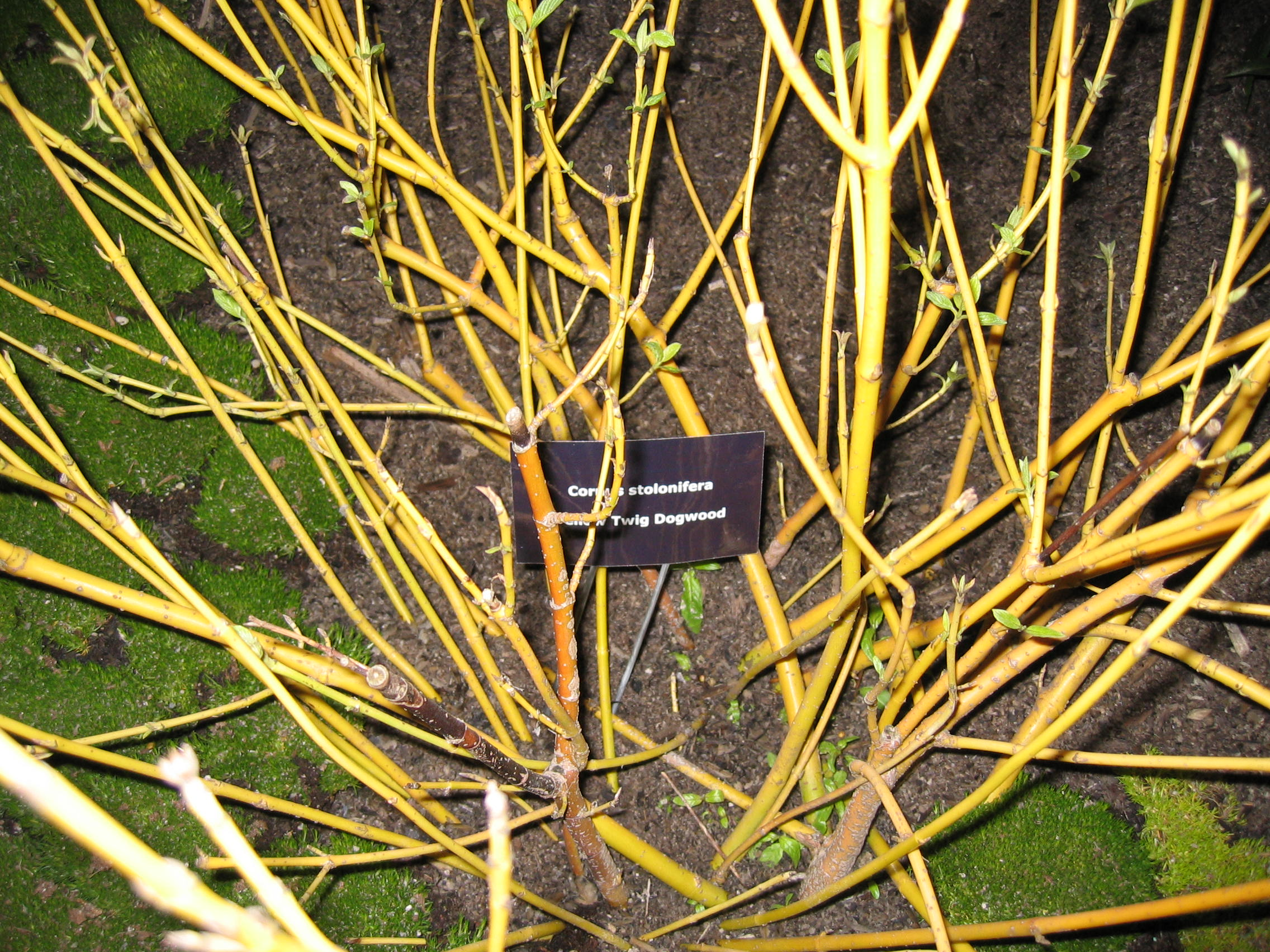 Author: User:Jkelly Description: Cornus sericea (syn. Cornus stolonifera), Red Osier Dogwood, on display at a garden show. Date: March 24 2006